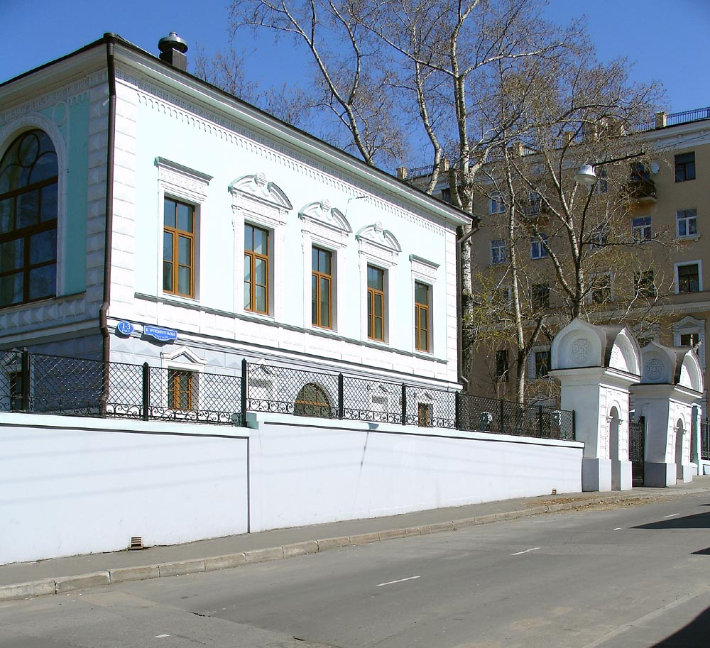 1, Tryohsvyatitelsky Lane, Moscow